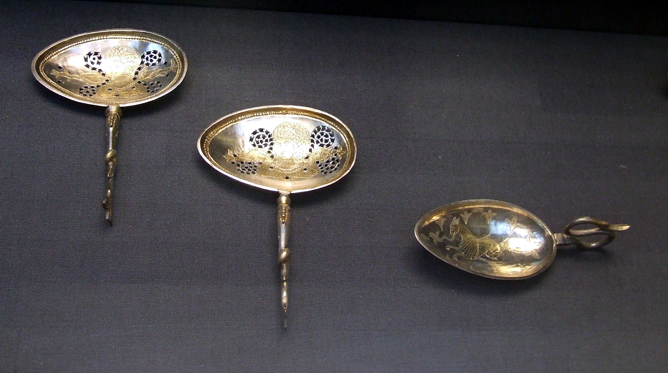 Two silver strainer spoons and a silver spoon with a marine beast from the Hoxne hoard. Currently in the British Museum.